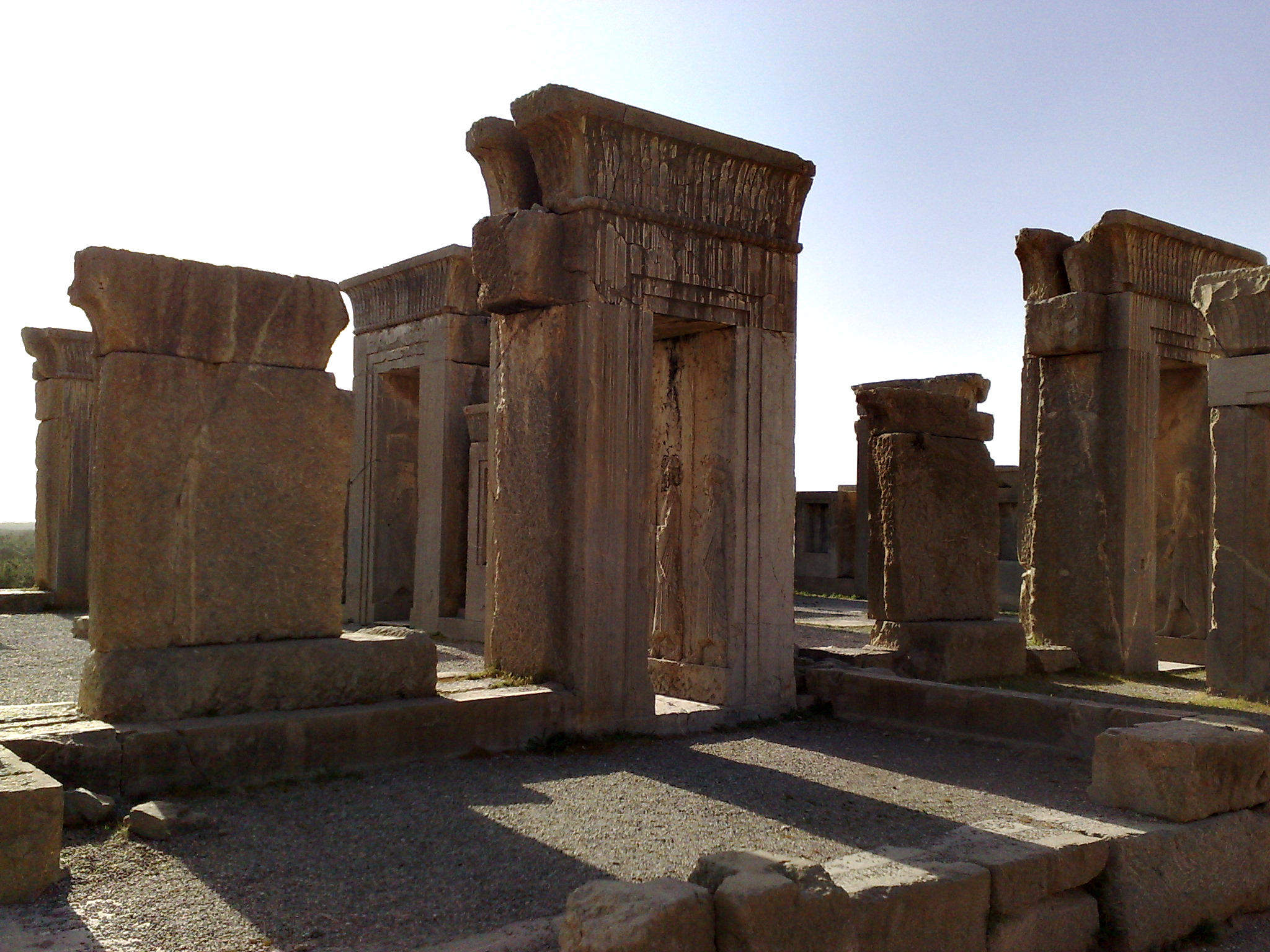 Persepolis